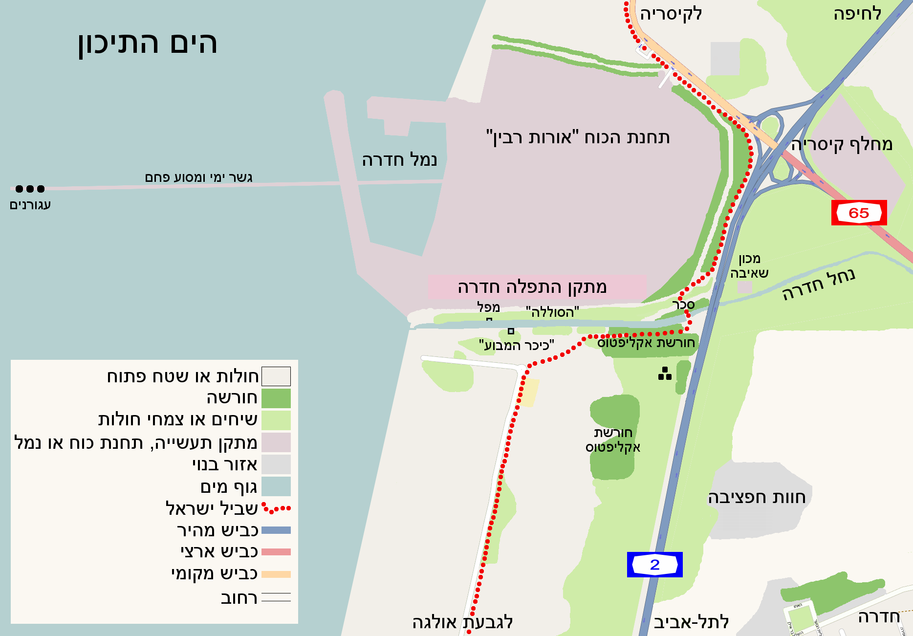 Lower Hadera stream